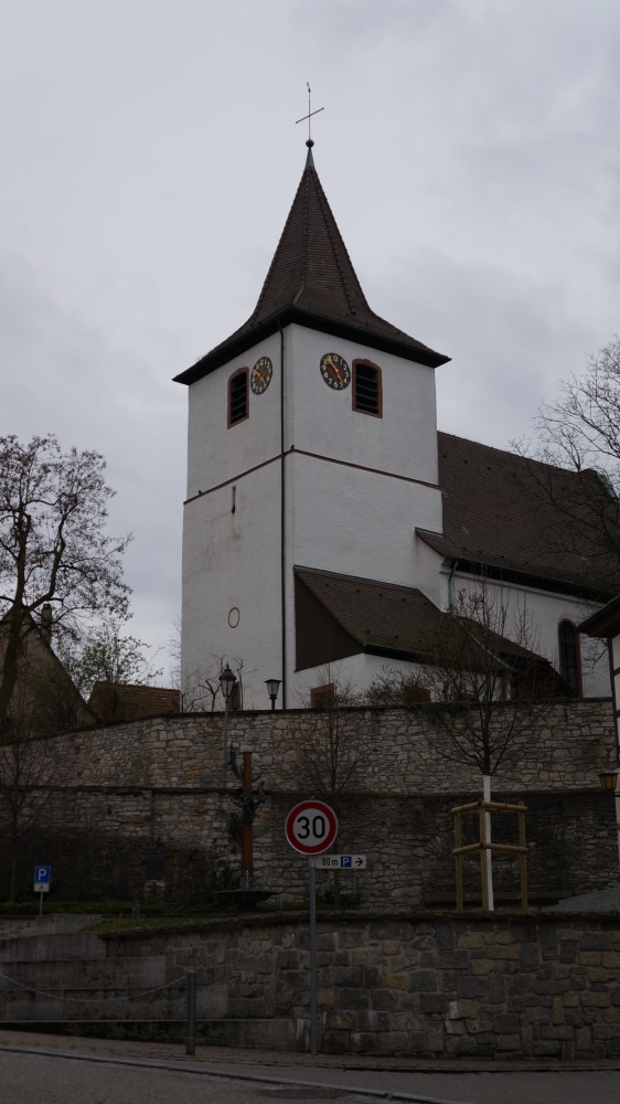 The photography contains of the Staphanus church in the village Kieselbronn, which was build during the turn of the 14th/15th century.